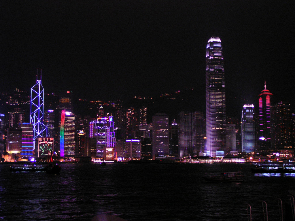 View of Central lights at night